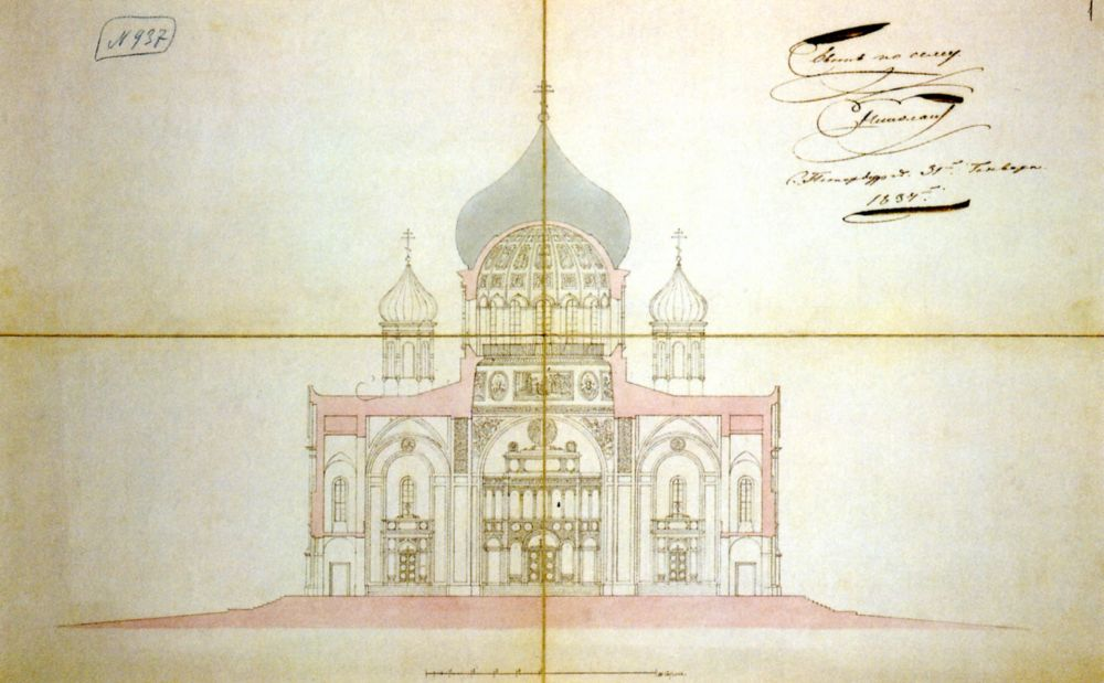 Konstantin Thon. Drawing of the Semyonovsky Regiment cathedral, endorsed by Nicholas I